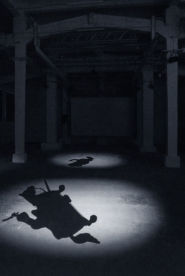 Total audio video installation of Tanya Sherstyuk "Hic sunt dracones". Shadow of monument of Ivan The Terrible in Orel.